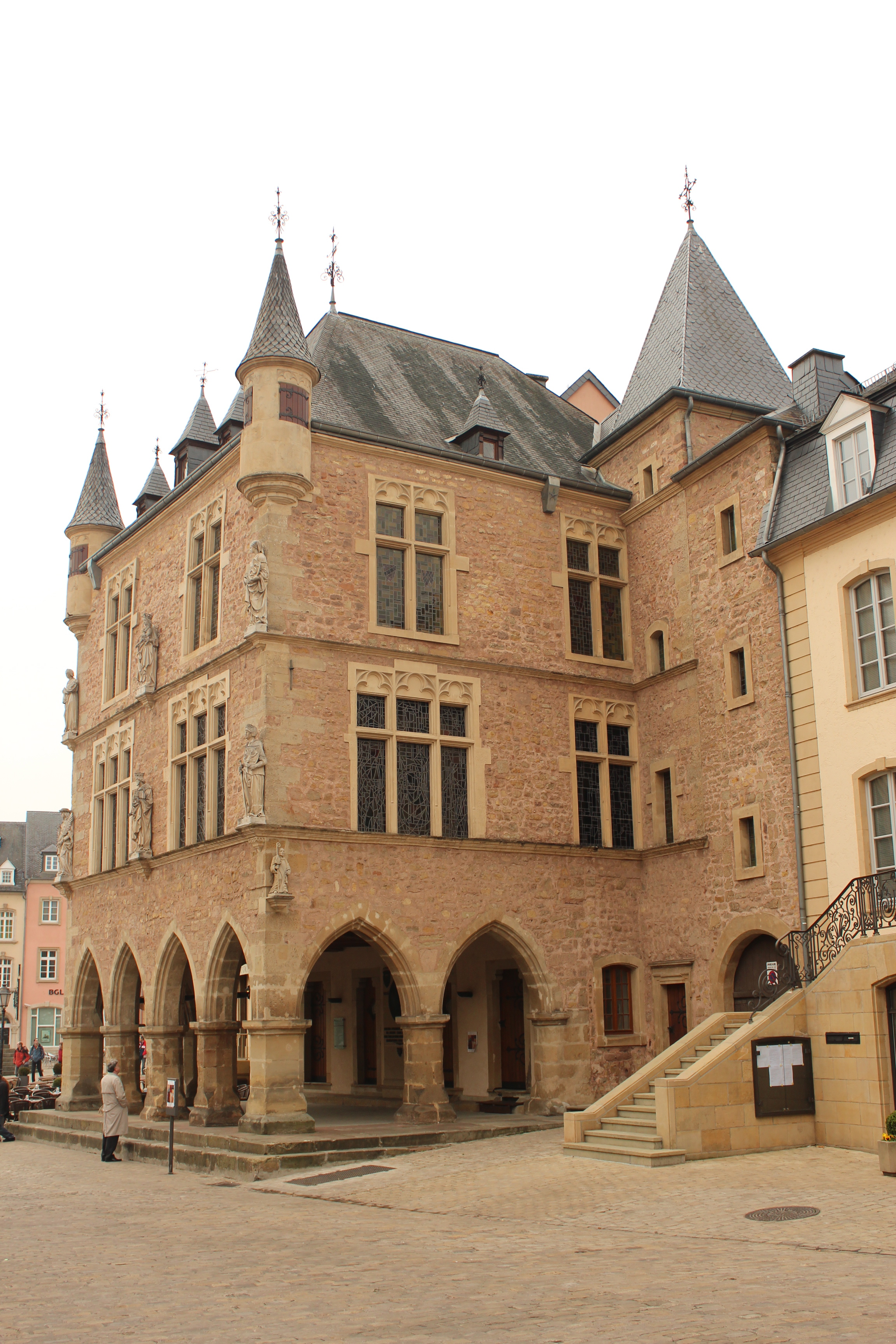 Dënzelt (aka Dingstuhl), former seat of the judiciary, in Echternach, Luxembourg. Cultural heritage monument.